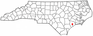 Category:North Carolina Dot Maps